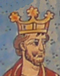 Ferdinand I of León and Castile